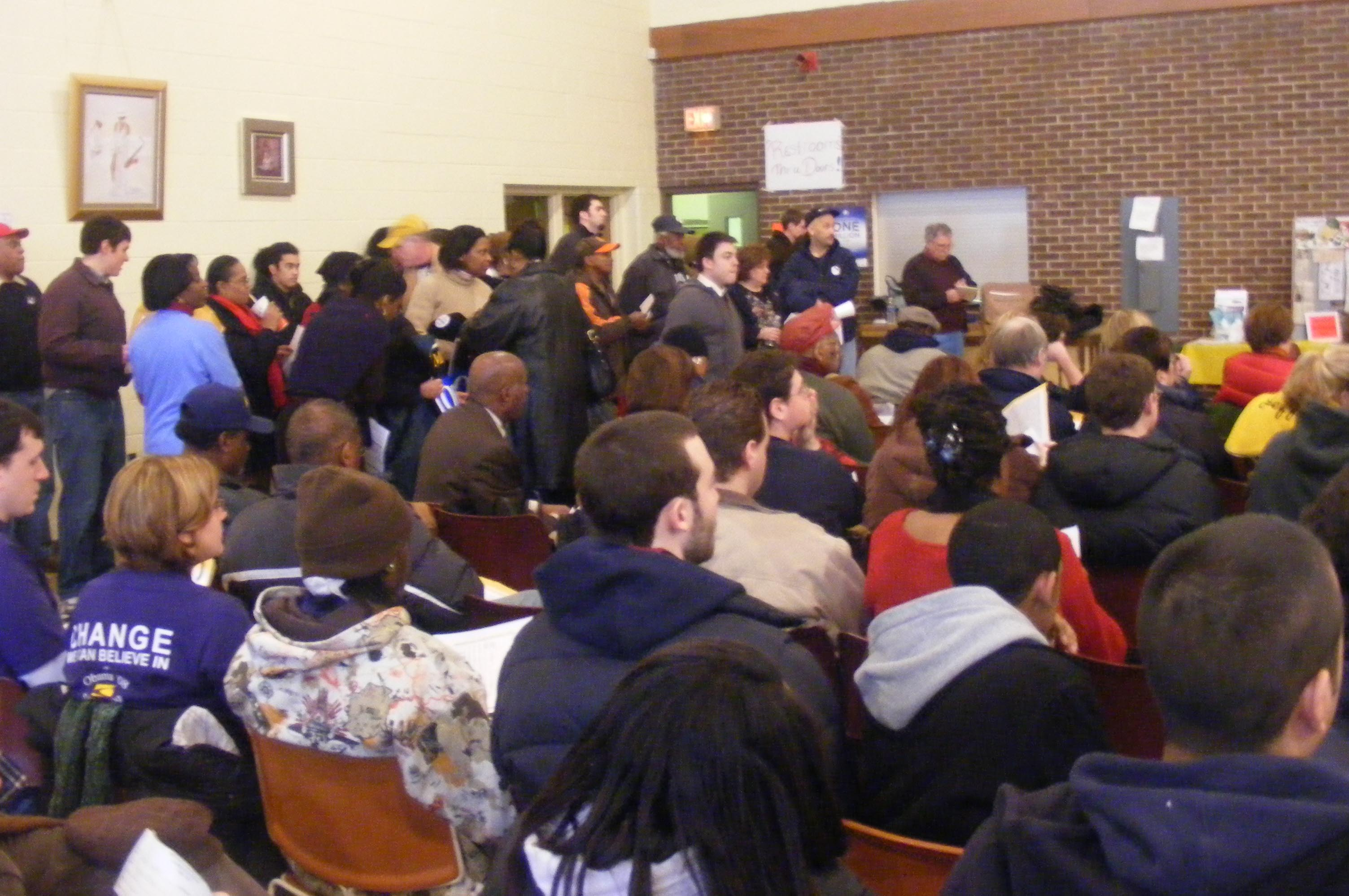 volunteers for obama meeting in youngstown Mahoning Valley Center, Youngstown, Ohio